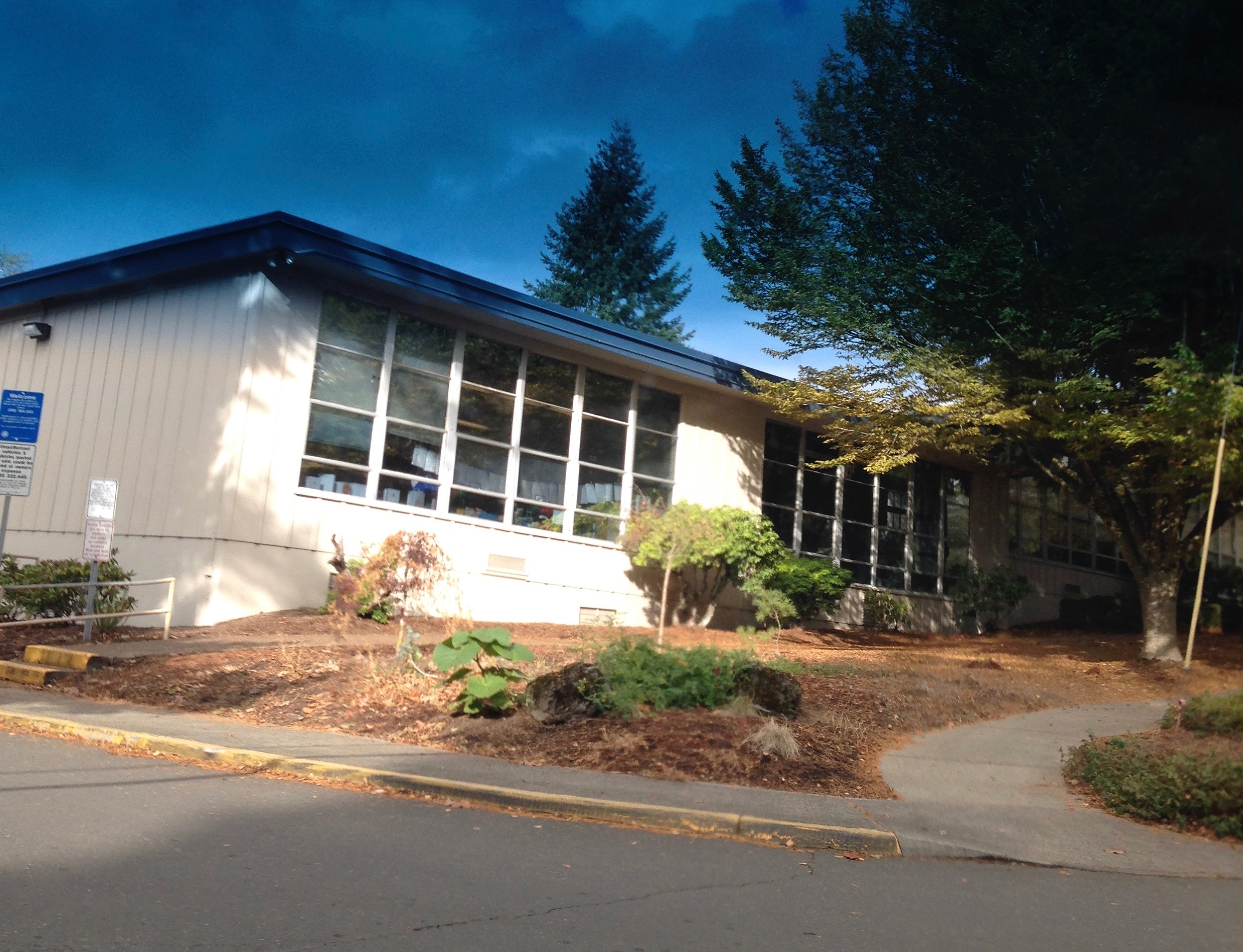 Cedar Mill Elementary School in Beaverton, Oregon